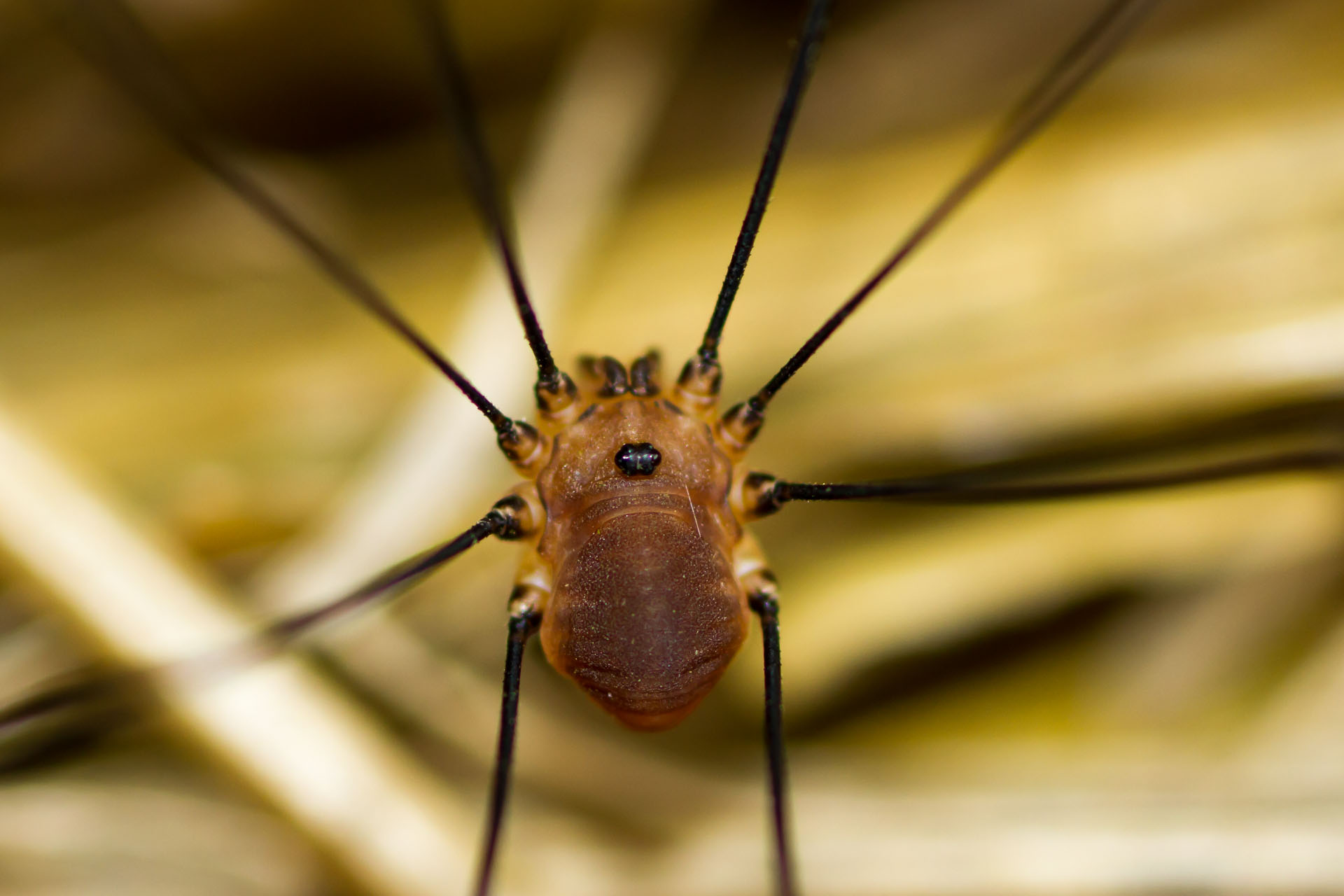 Close up macro shot of the body of a UK harvestman arachnid